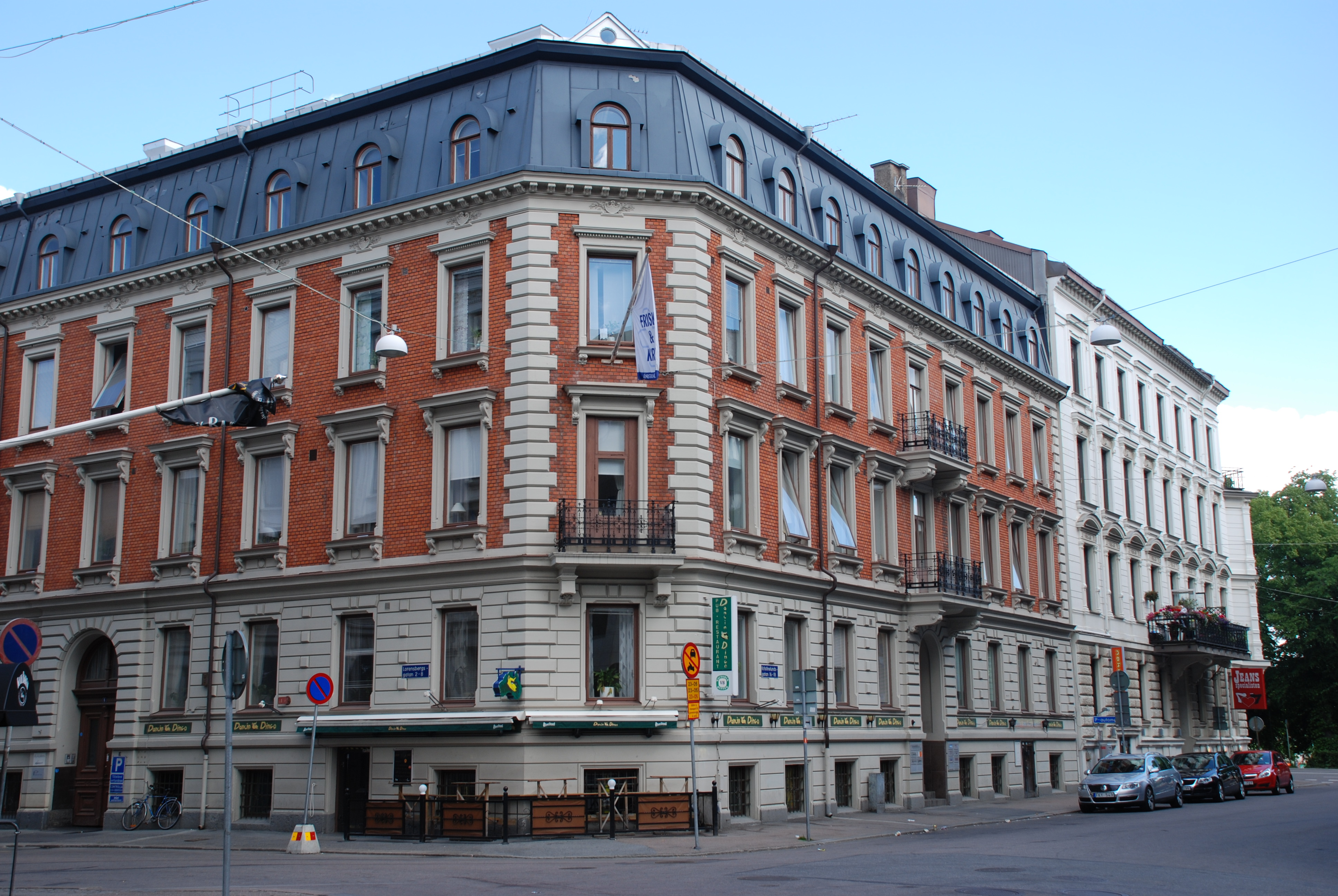 Lorensbergsgatan 8/Kristinelundsgatan 16, city block 54 Svaneholm in city quarter Lorensberg in Göteborg.